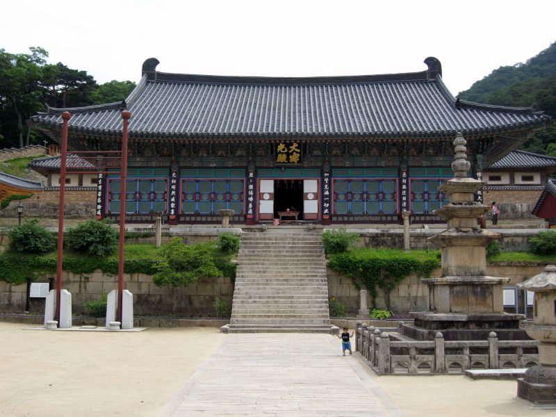 Haeinsa (해인사, Temple of Reflection on a Smooth Sea) is one of the foremost Chogye Buddhist temples in South Korea. It is most notable for being the home of the Tripitaka Koreana, the whole of the Buddhist Scriptures carved onto 81,258 wooden printing blocks, which it has housed since 1398.